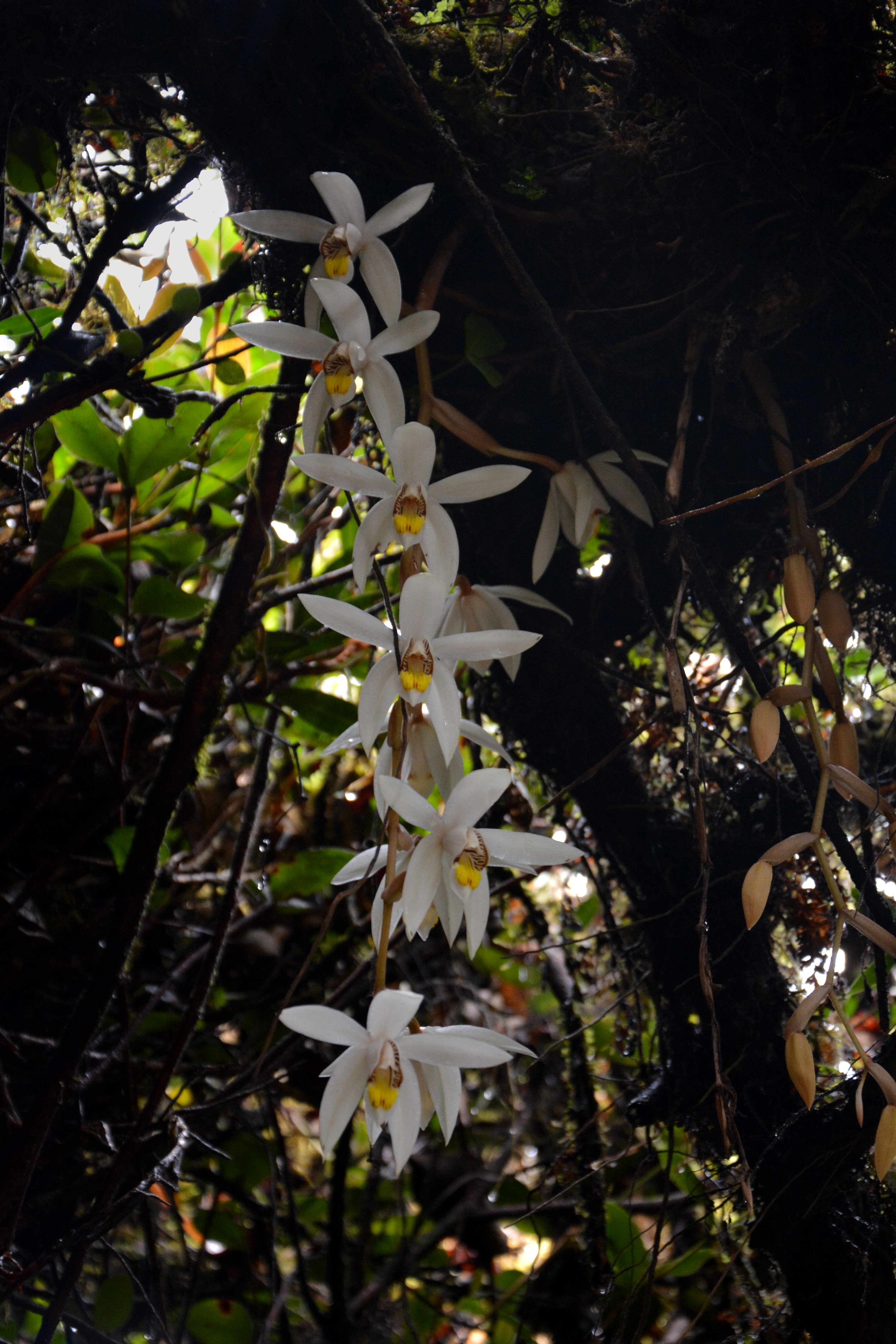 Cameron Highlands, Moss forest, Malaysia